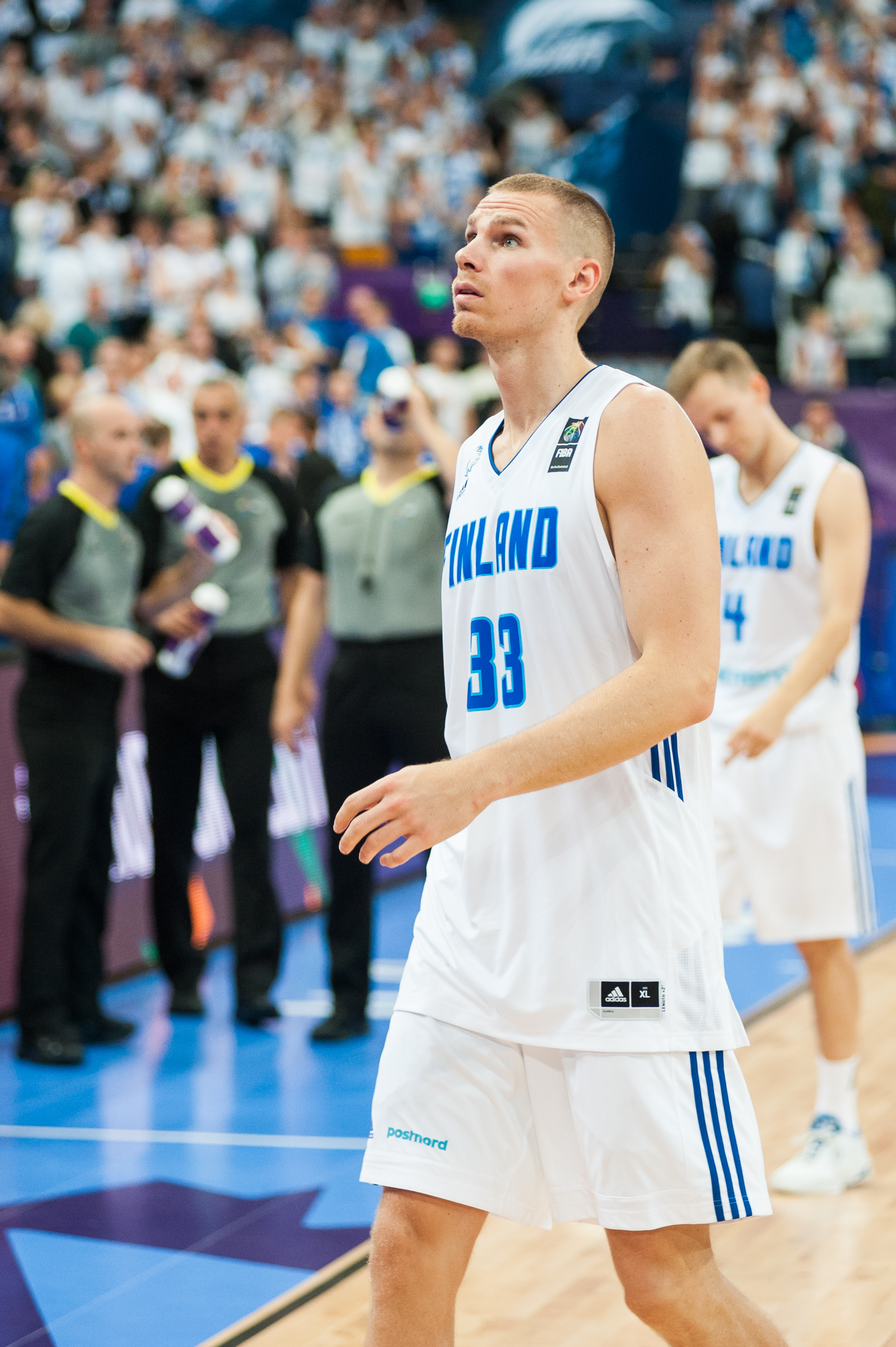 EuroBasket 2017 Group A game between Finland and Slovenia at Hartwall Arena in Helsinki, Finland.